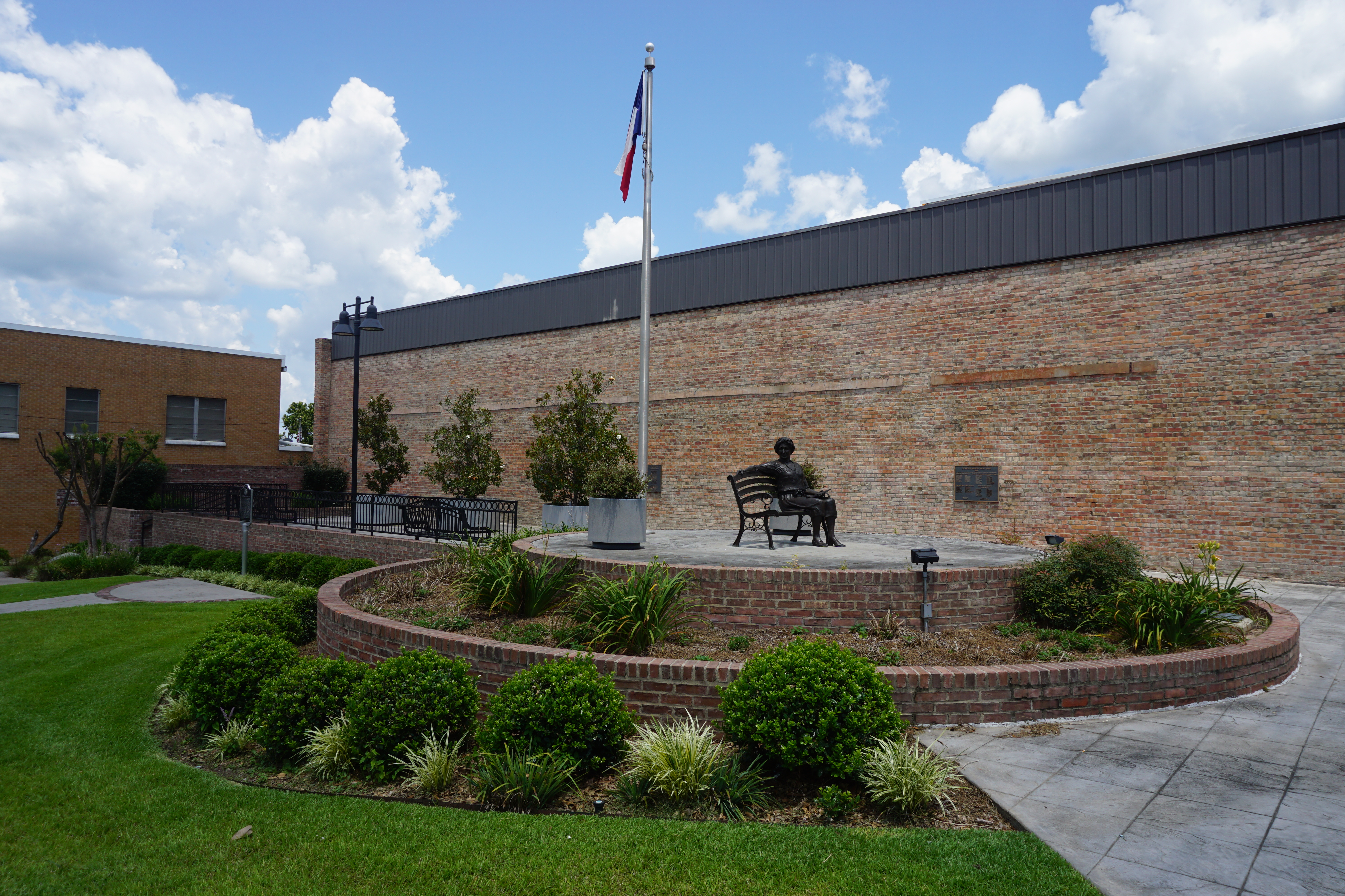 Senator Margie Neal Park in Carthage, Texas (United States).